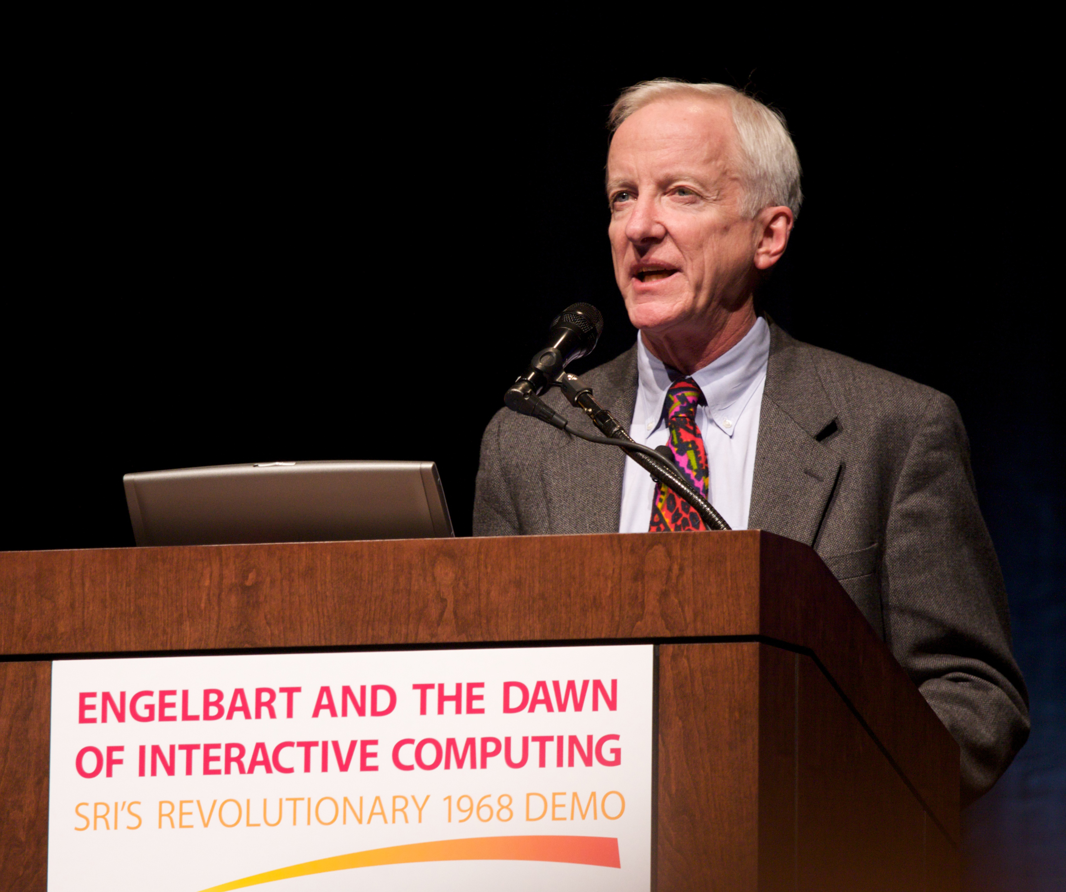 Bob Sproull